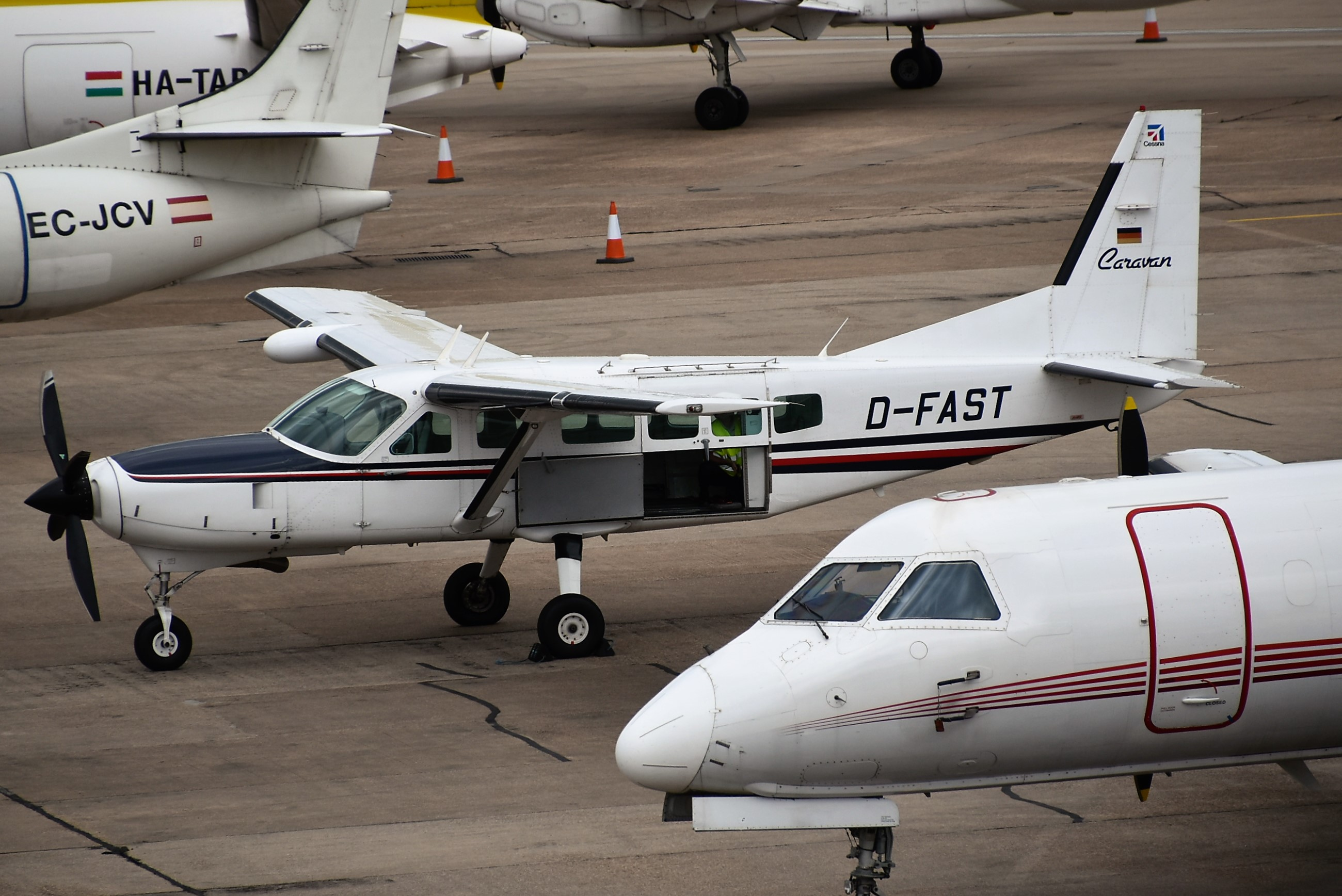 Cessna 208 of Business Wings at Birmingham-BHX, 30/05/17.